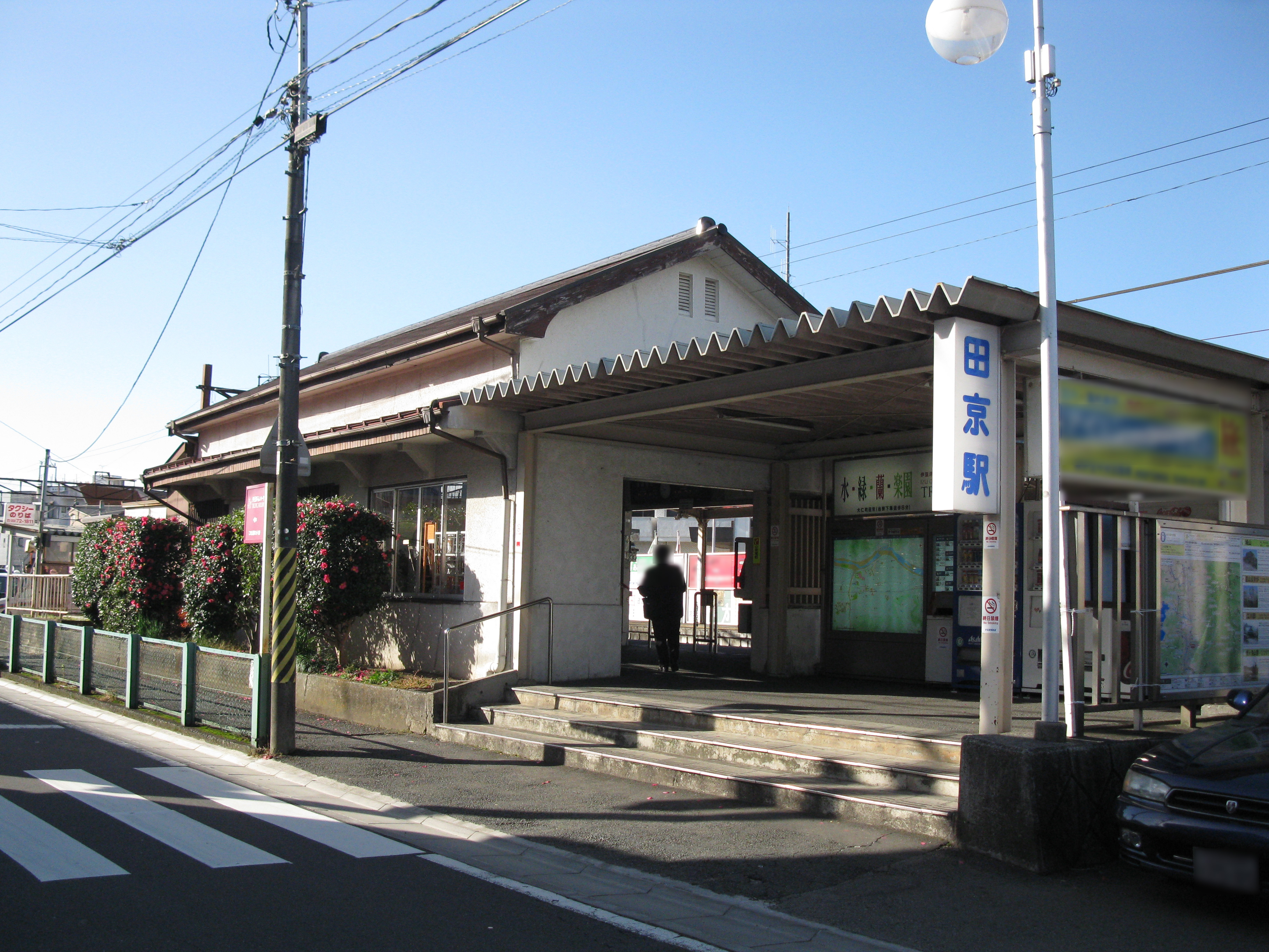 Takyō Station building (Izuhakone Railway Sunzu Line)